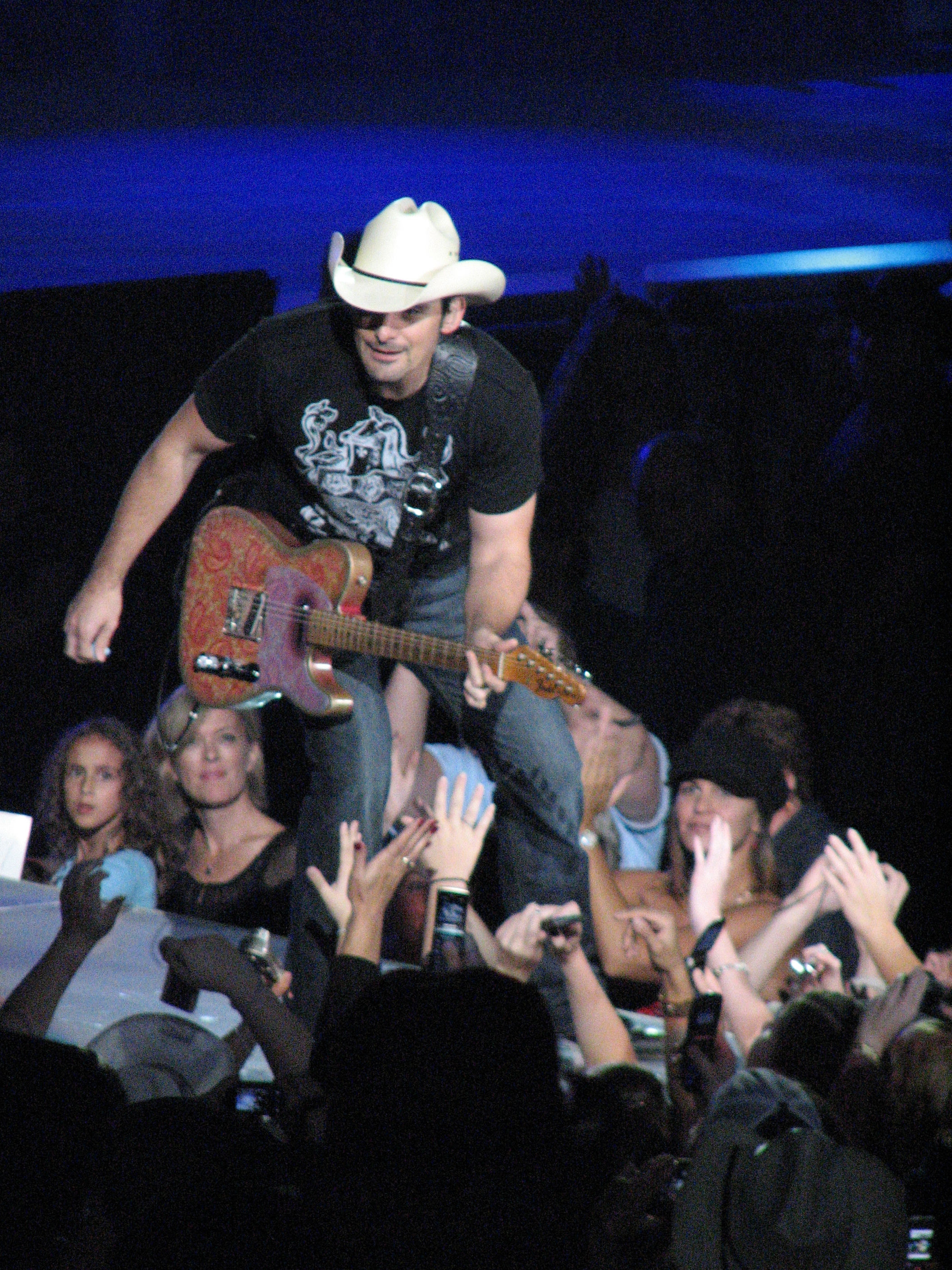 Brad Paisley performing live at the Duncan Donuts Center in Providence, Rhode Island, September 27, 2008